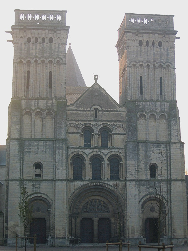 Women's Abbey, Trinity church, front.